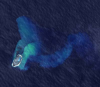 Aster satellite image of the new volcanic island called "Home Reef"